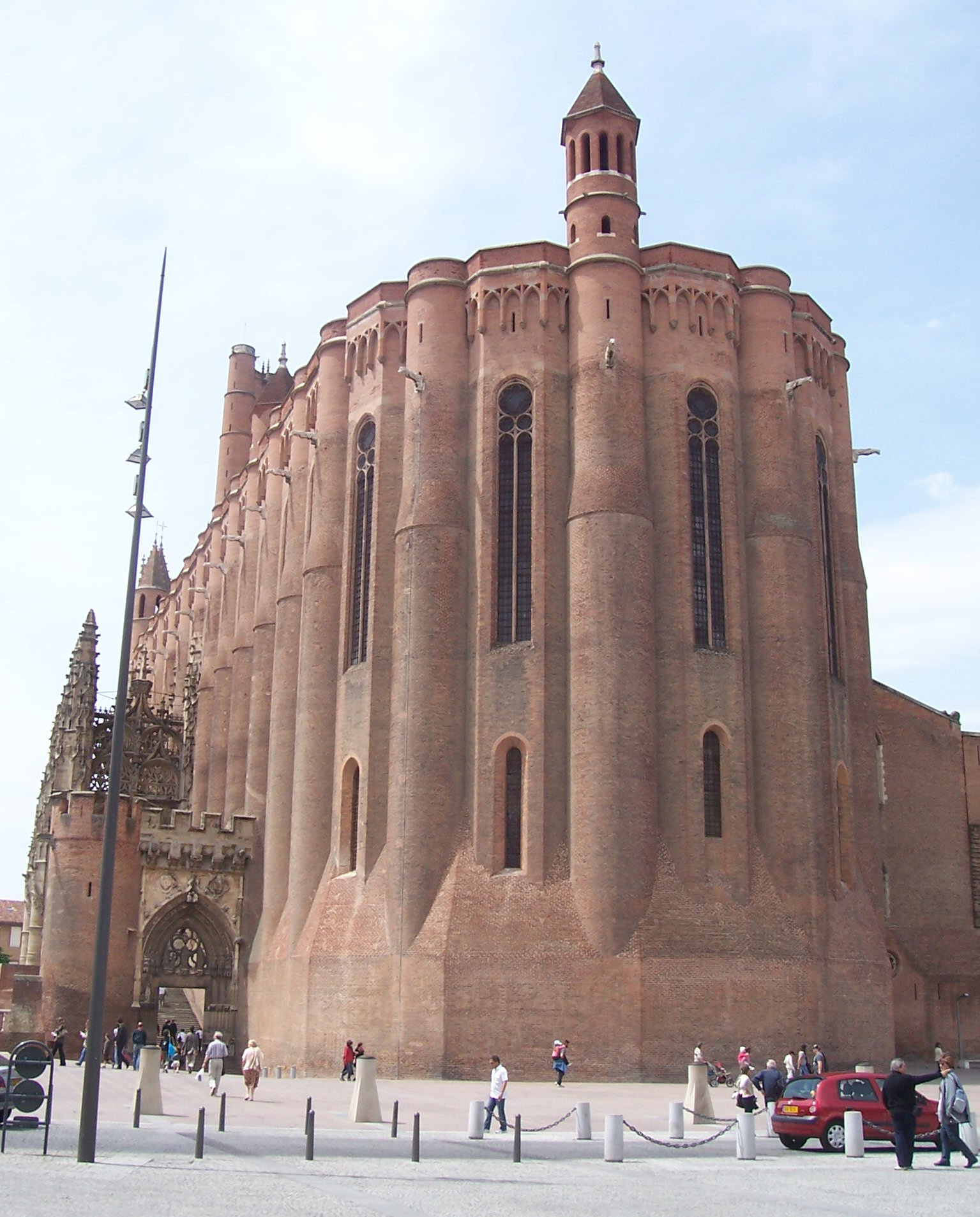 View of Albi Cathedral (Albi, France)